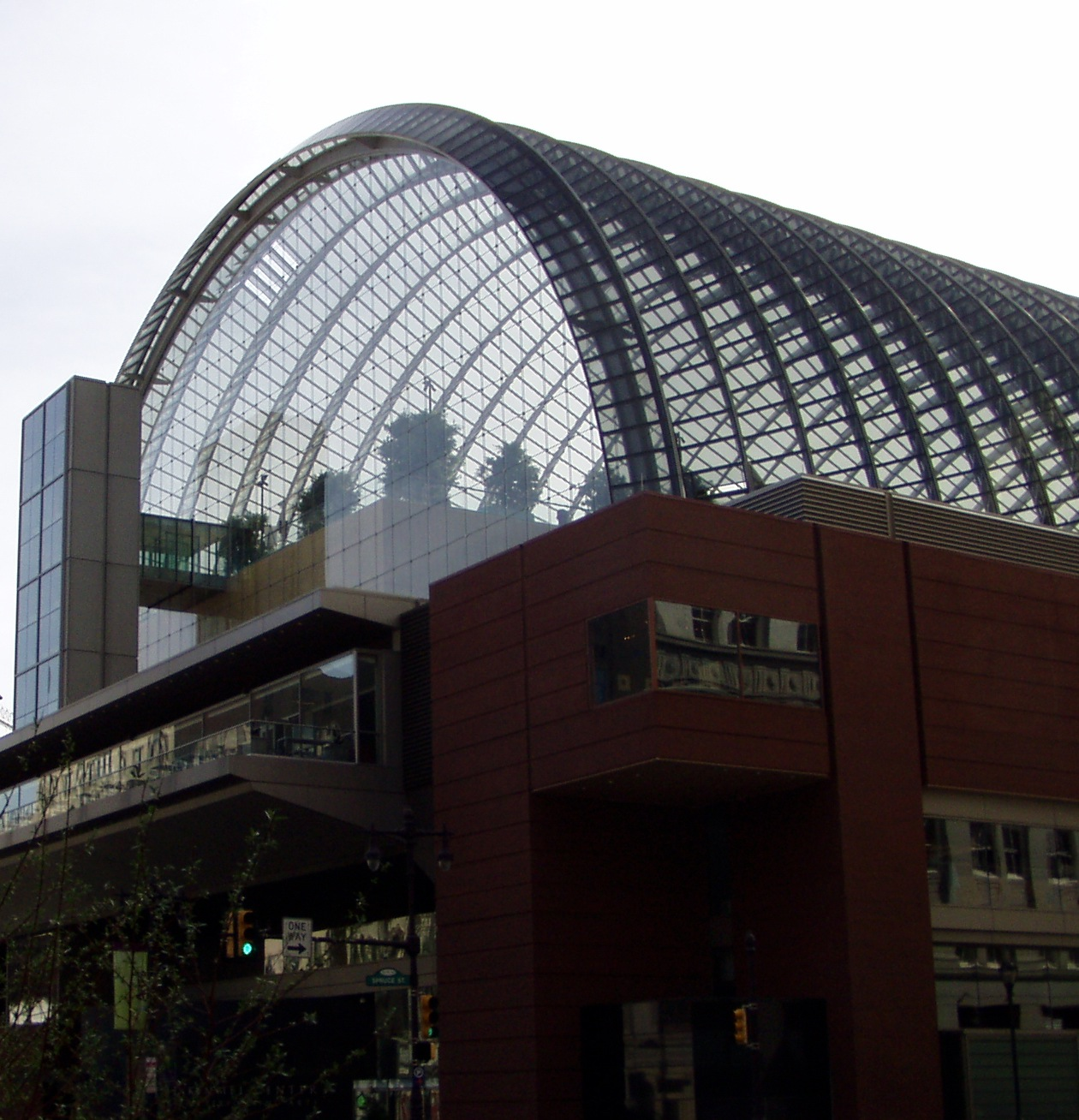 The Kimmel Center for the Performing Arts in Philadelphia